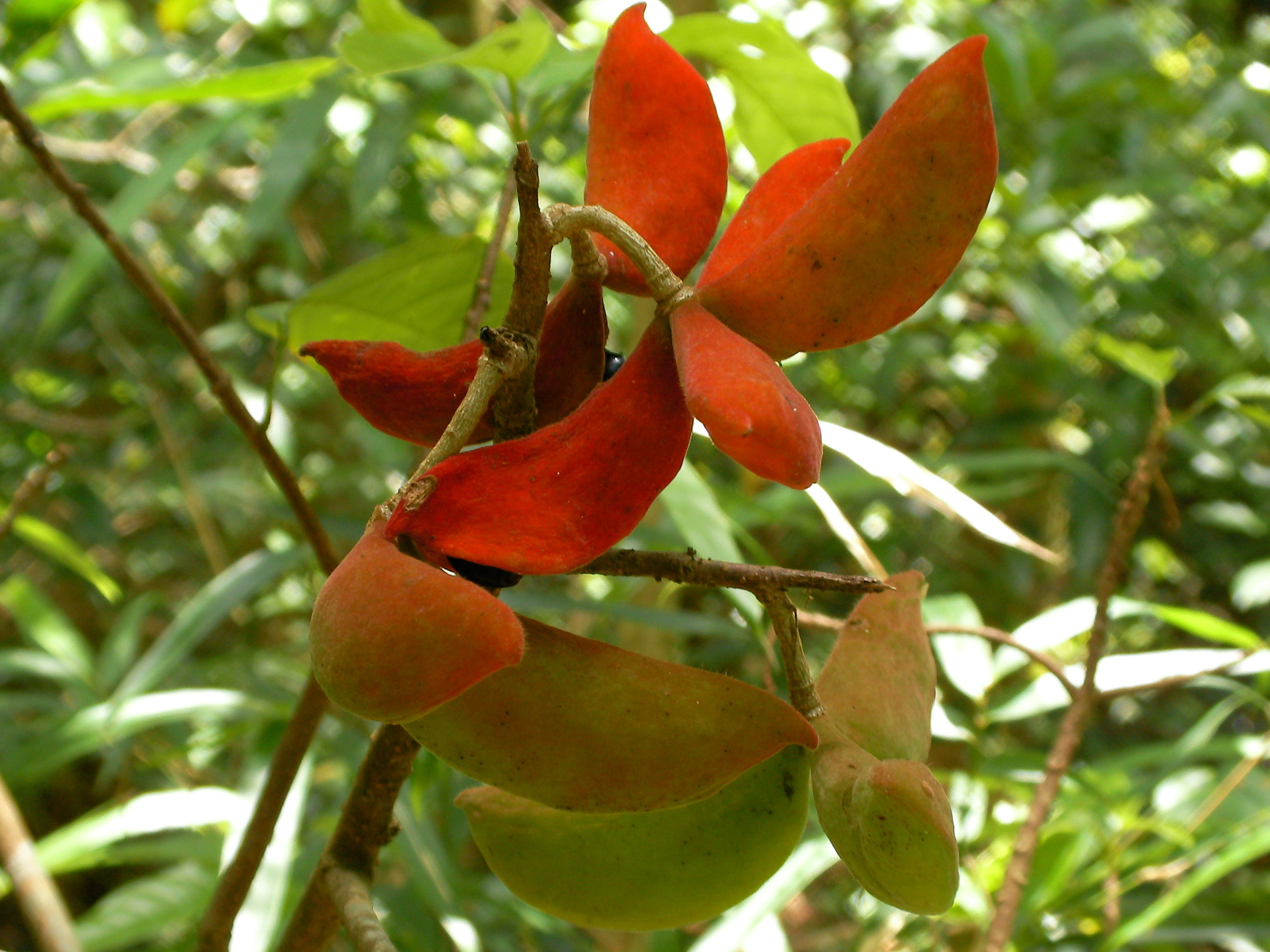 Fruits of Sterculia lanceolata taken in Shing Mun Country Park, Hong Kong